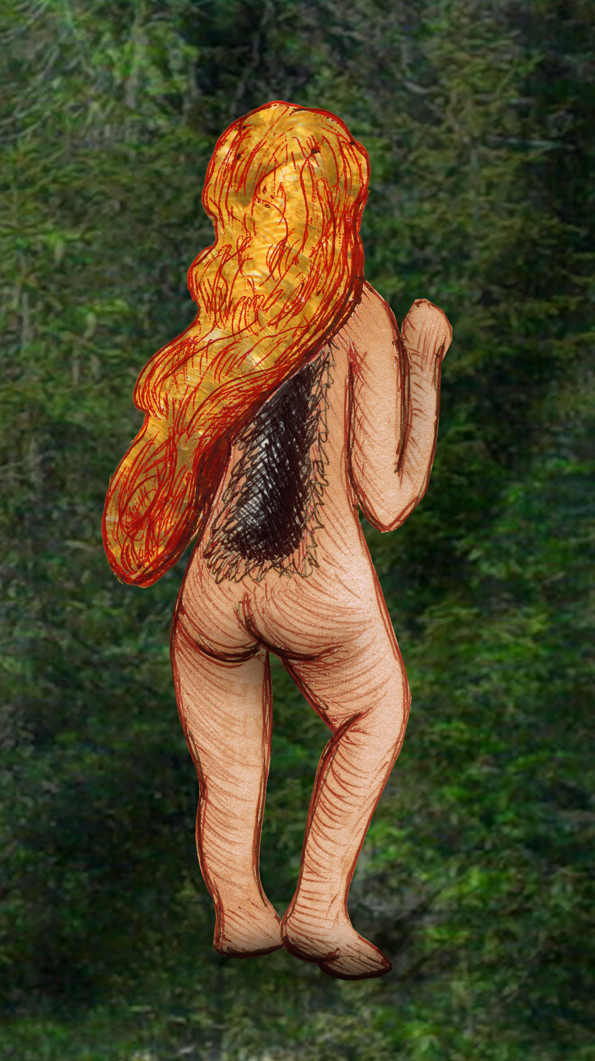 South Scandinavian "Skogsrå" with hollowed back seen in spruce forest. The "Skogsrå" is a seductive, female forest spirit identical or closely related to the Danish "Ellekvinna", the Norwegian "Huldra", and the Norrlandic "Vittra". The "Skogsrå" is here seen from the back and looks like a nude woman with red or golden hair. She can be identified as a "Skogsrå" because her back looks like a hollowed, rotten tree trunk. This appearance is most common in Götaland in southern Sweden. Drawing and photoshoping by Gunnar Creutz.